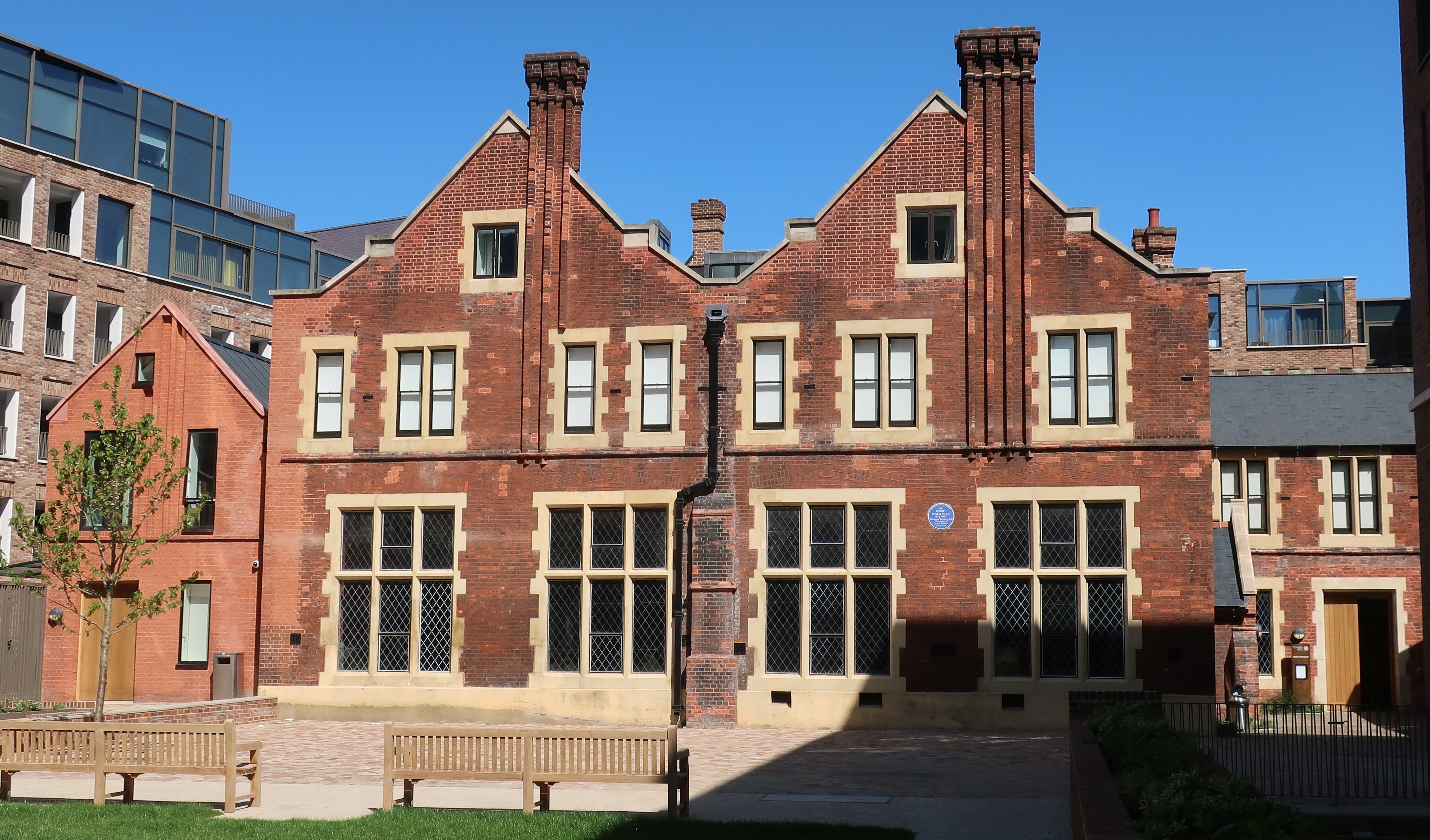 The main 1894 building of Toynbee Hall, Commercial Street, London E1. The frontage bears a Greater London Council blue plaque commemorating Jimmy Mallon (1874-1961)